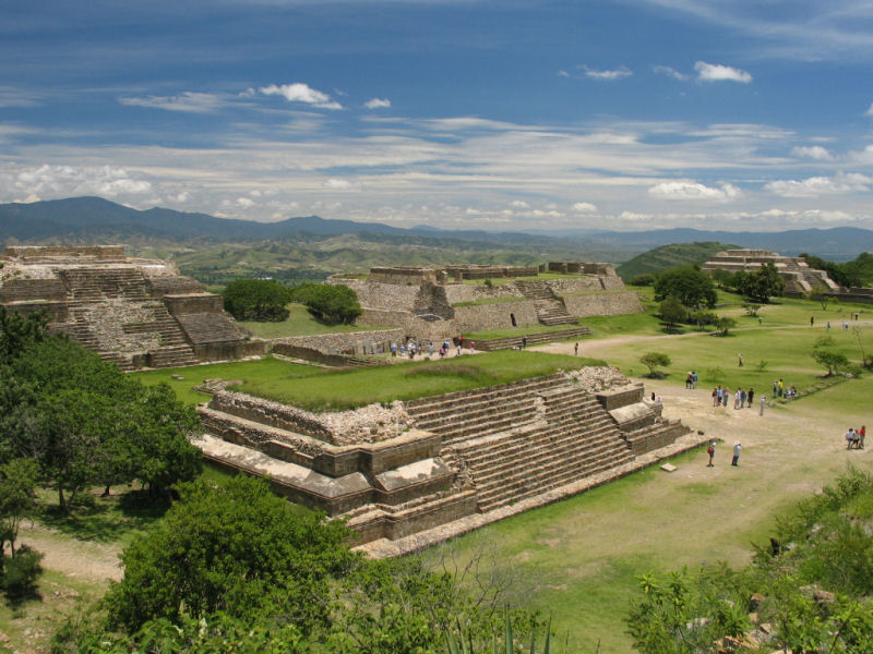 View of Monte Albán from the south platform looking west. July 2004.